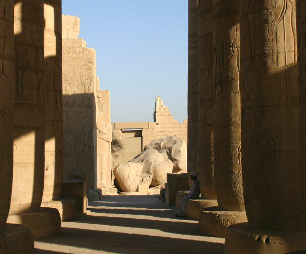 Ramesseum. Ramses Statue Image taken by Bradipus in April 2005.